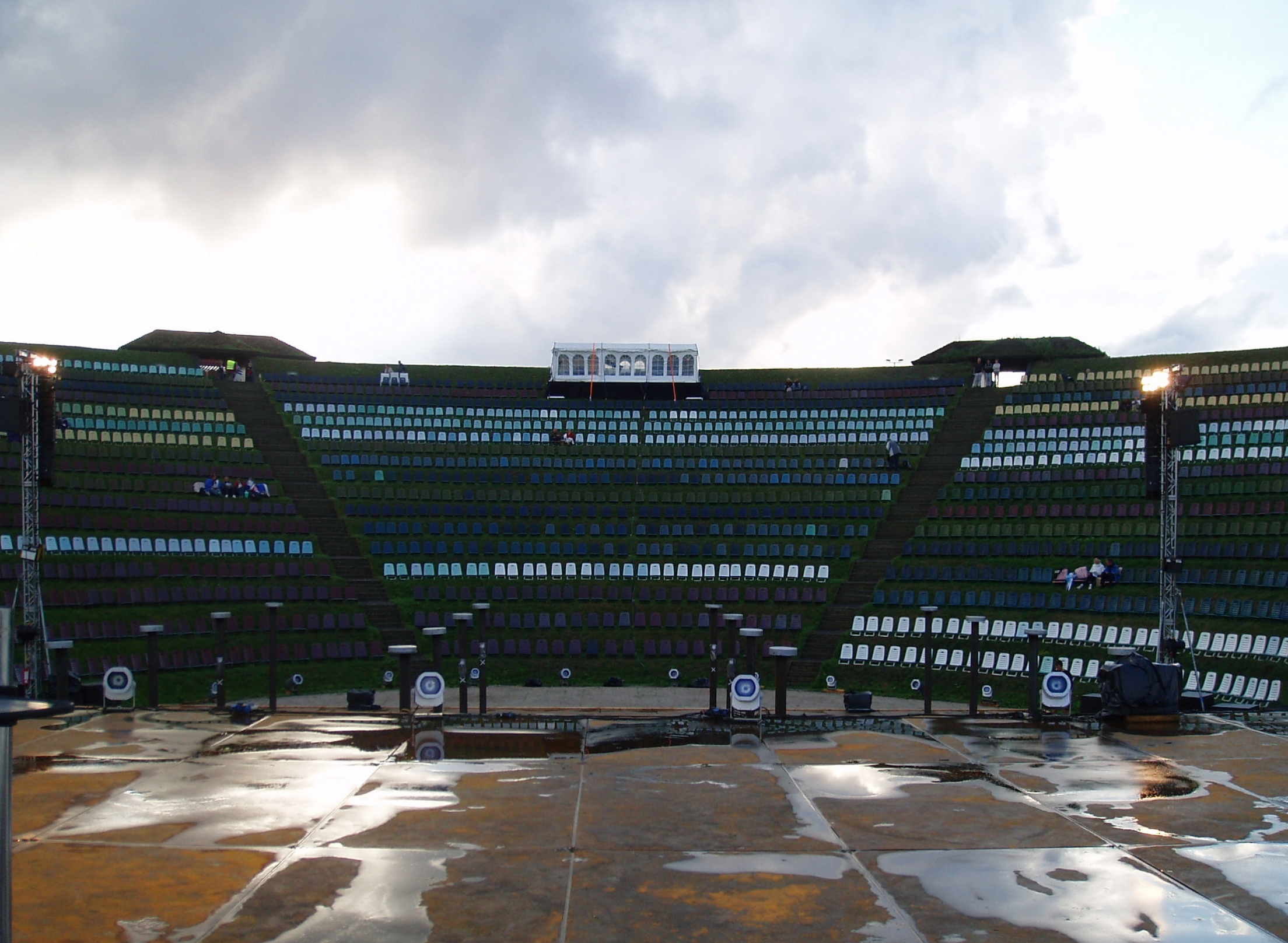 The amphitheatre Teater Hedeland. The theater is part of the former gravel pit Hedeland, which now functions as an recreational area.